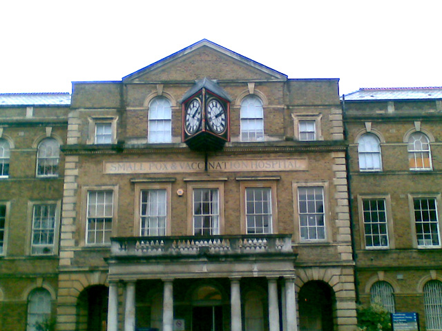 Whittington Hospital N19 5NF Old Small Pox Hospital An older hospital